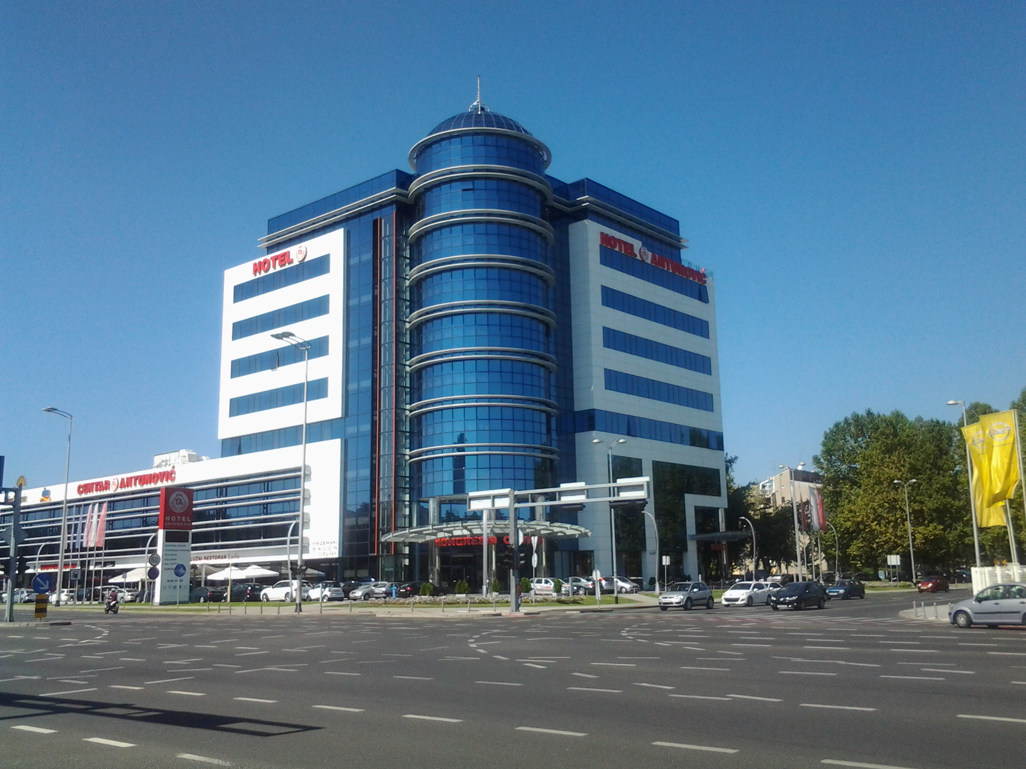 Hotel Antunović Zagreb.